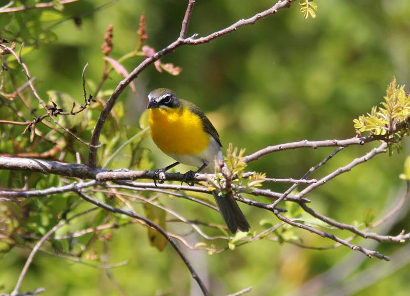 Yellow-breasted chat (Icteria virens), a large atypical New World warbler. Photographed at Cape May, NJ in May 2013.